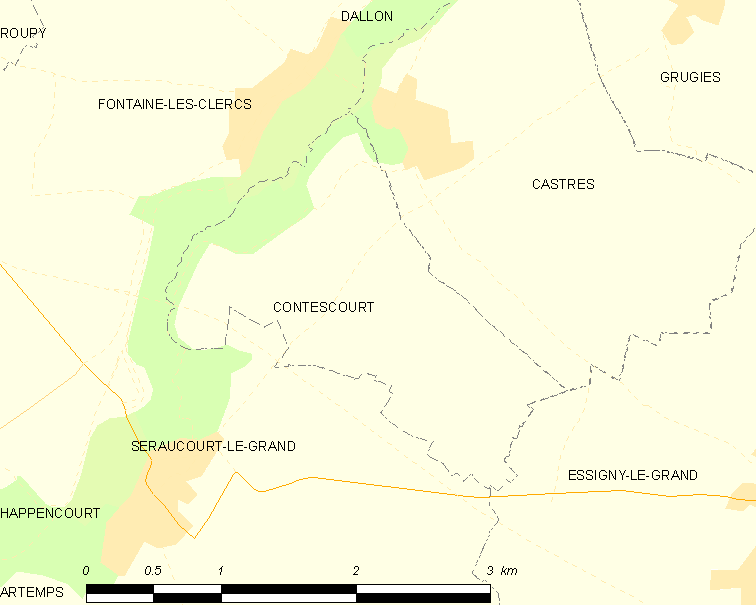 Map of French commune: Contescourt Map commune FR insee code 02214.png